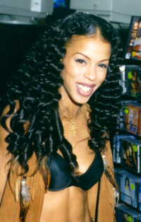 Heather Hunter